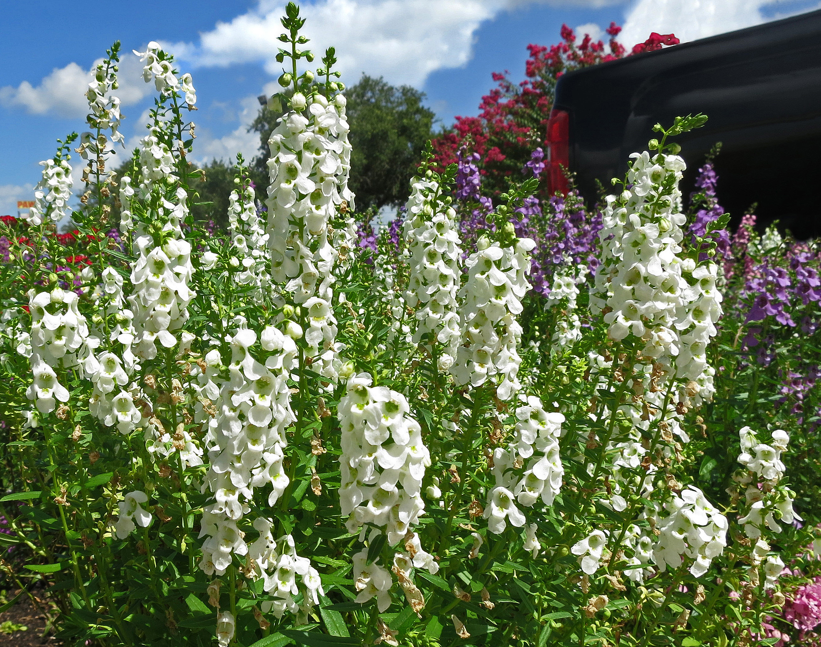 Angelonia. Don't know species.